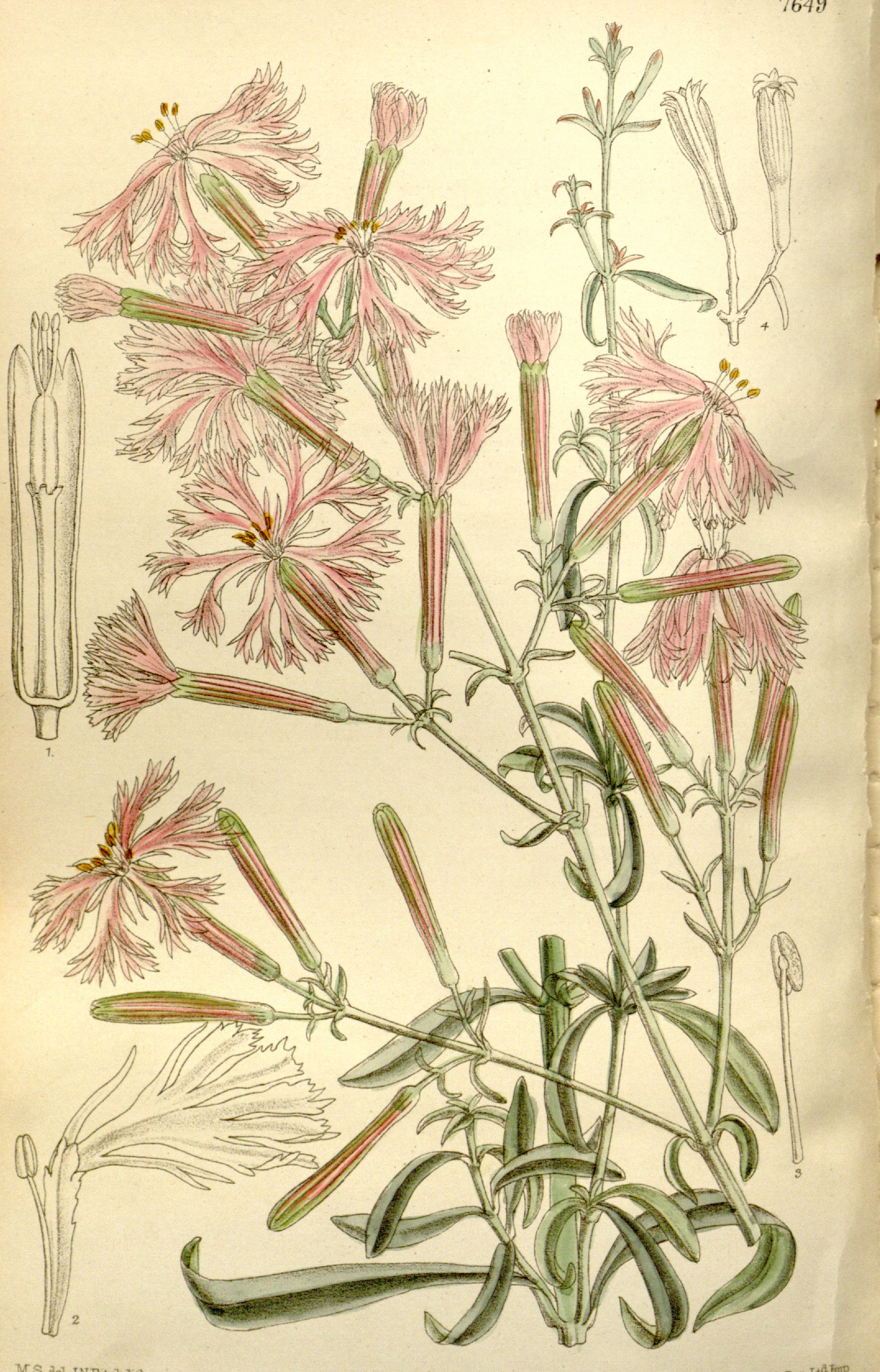 Silene fissipetala var. fissipetala, as Silene fortunei (nom. illeg.)